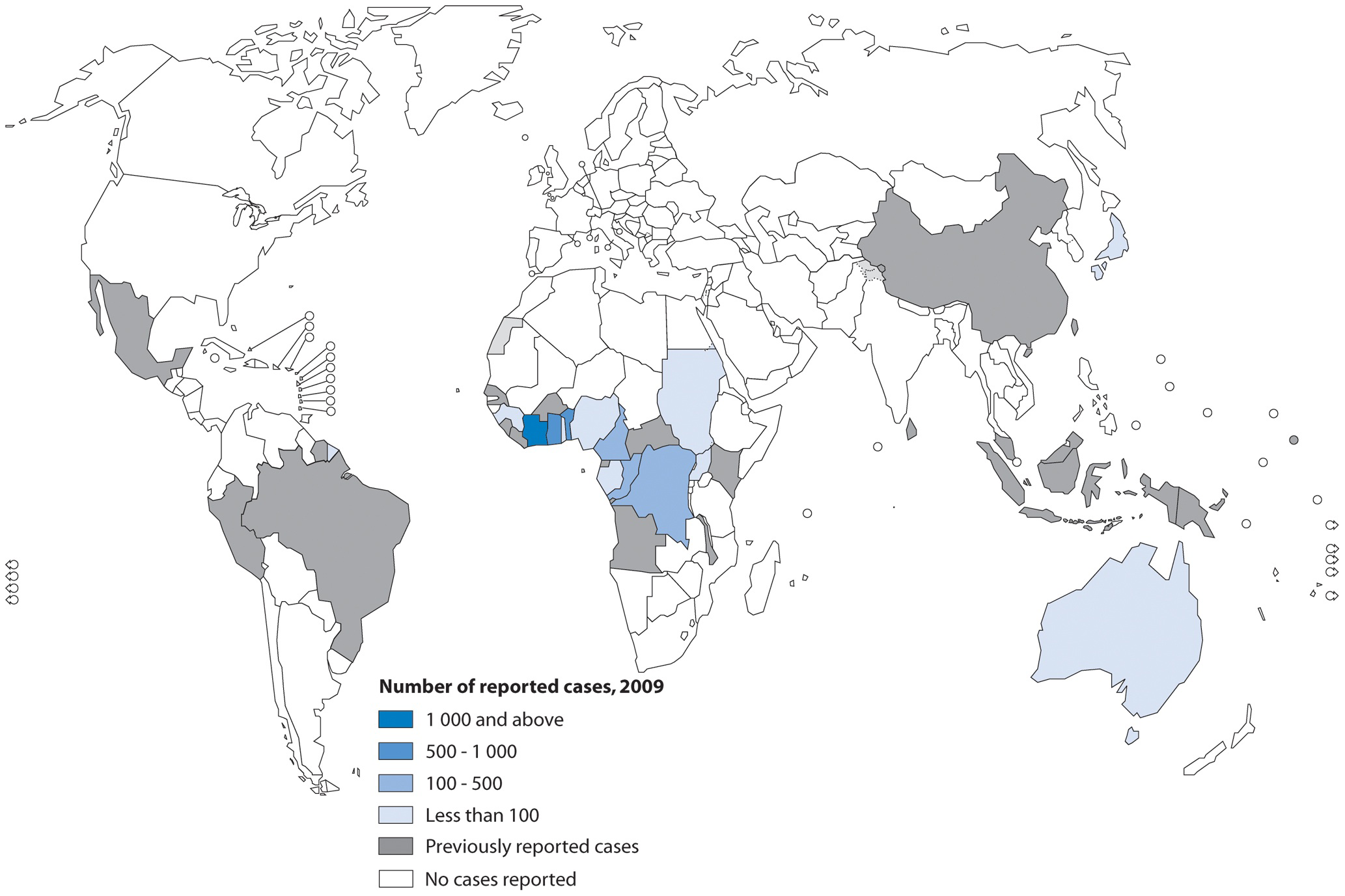 A global map representing countries that have reported cases of Buruli ulcer disease as of 2009 (WHO).